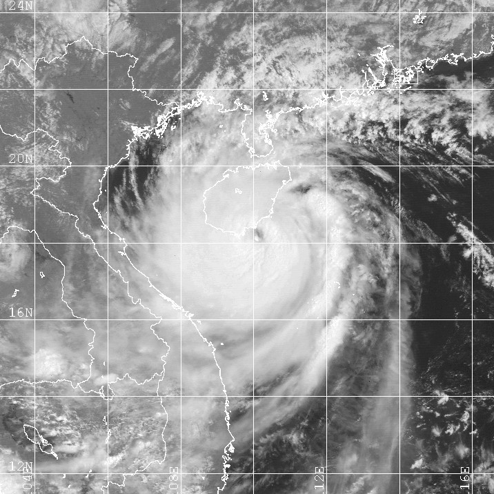 This image of Typhoon Wukong was captured by the GMS-5 satellite on September 09, 2000 at 0248 UTC. The storm's maximum sustained winds at the time were 70 knots.